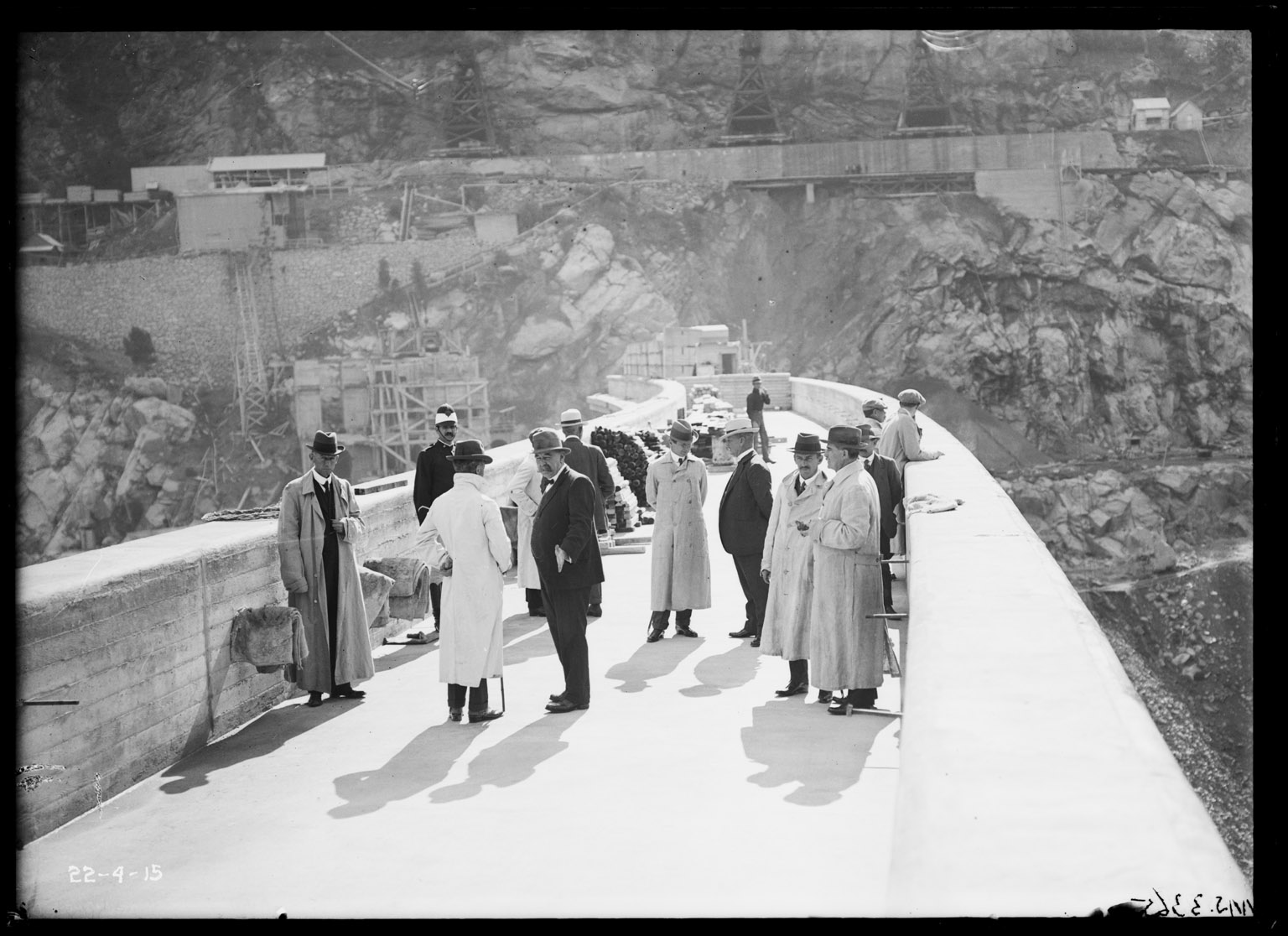 Title: On the top of Burrinjuck Dam, Visit of State Governors to Burrinjuck Dam, Burrinjuck NSW Dated: 22/04/1915 Digital ID: NRS4481_MS3365P Series: Government Printing Office glass plate negatives Rights: No known copyright restrictions We'd love to if you use our photos/documents. Many other photos in our collection are available to view and browse on our website using